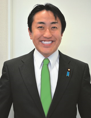 Saito Hiroaki was inaugurated as Parliamentary Vice-Minister for Internal Affairs and Communications on September, 2019